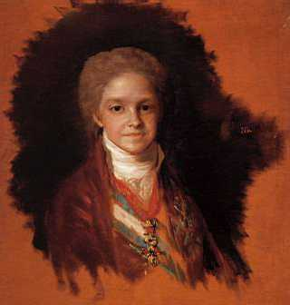 Portrait of the Infant Carlos María Isidro of Spain (1788-1855)